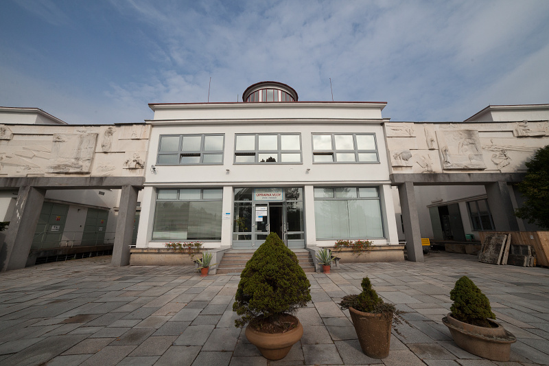 Úpravna vody Podhradí u Vítkova - panorama, autor: Boris Renner